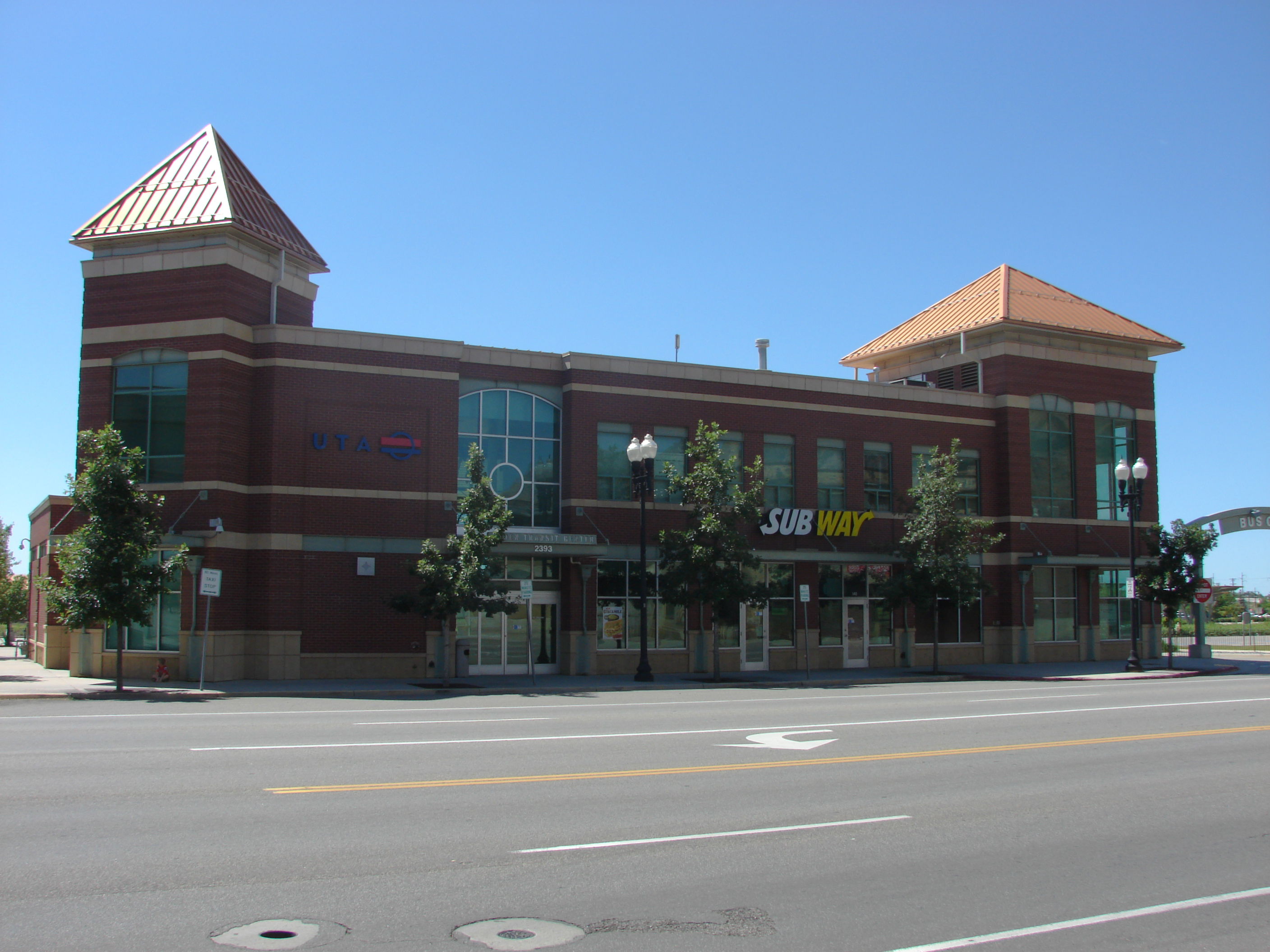 A front view of the Ogden Intermodal Transit Center building, from across Wall Avenue